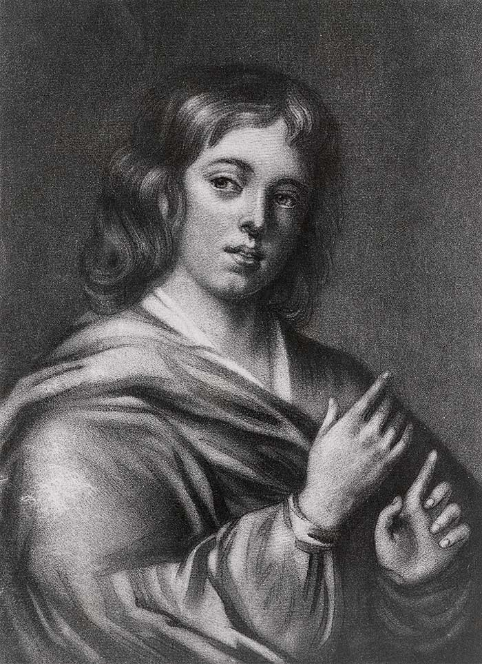 Edward Kynaston, 17th century actor.